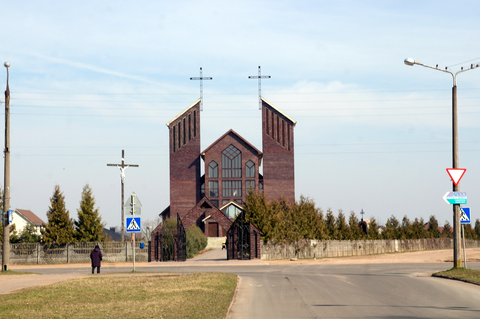 Church of St. Zikmund, 51 Enthusiasts str., Baranovichi city. View from Syarzhant street.